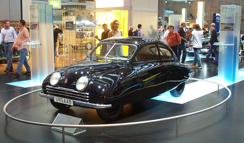 Ursaab 001 by SAAB, aka SAAB 92001. This is the first running prototype made. It has since been equipped with road worthy lights and is kept in running order.